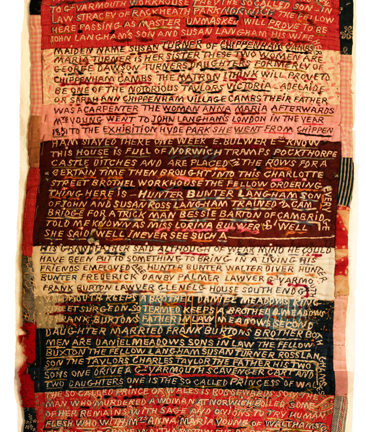 Lorina Bulwer was born in 1838 in Beccles. Her father was William John Bulwer and Ann (born Turner). She was placed in a workhouse at Great Yarmouth at the age of 55 and there she created a niece of needlework. She died in 1912. This work is in Norwich Museum now